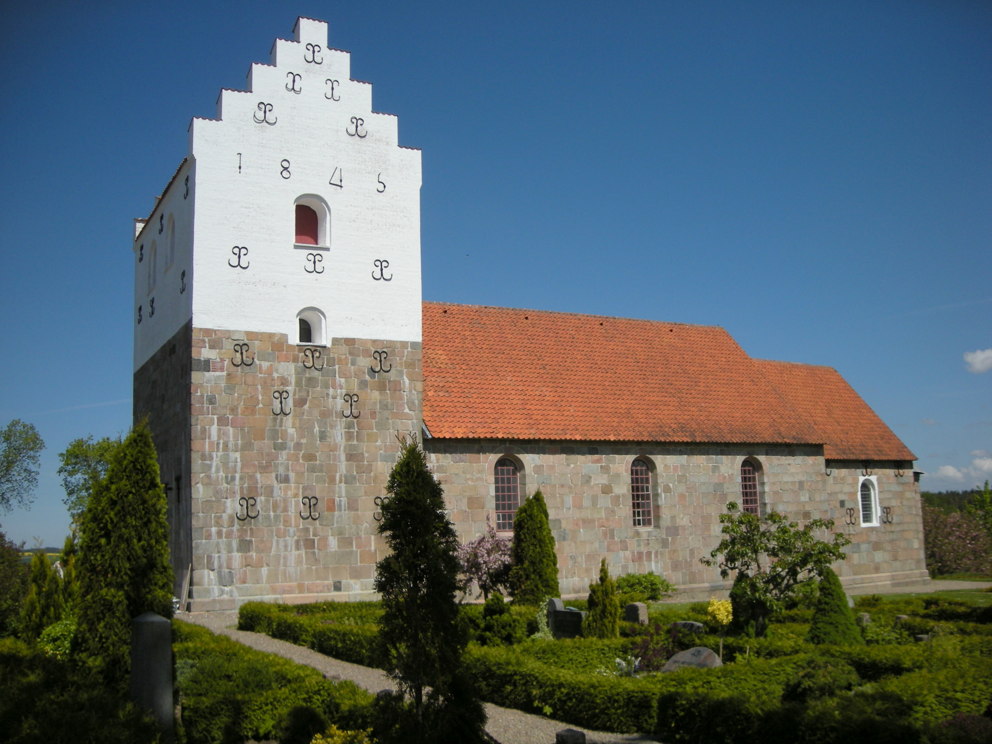 Øster Hornum Church, Municipality of Rebild, Region Northern Jutland, Denmark.